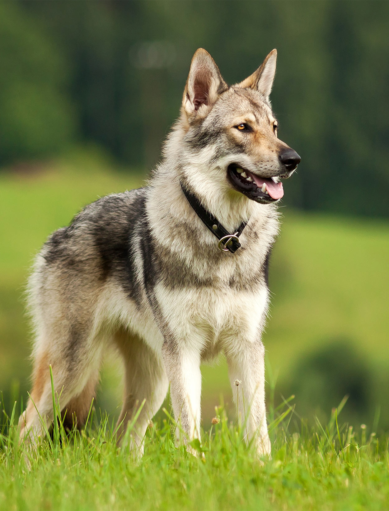 Czechoslovakian Wolfdog